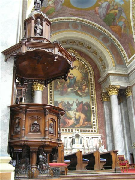 Photo: Bengt Olof Åradsson